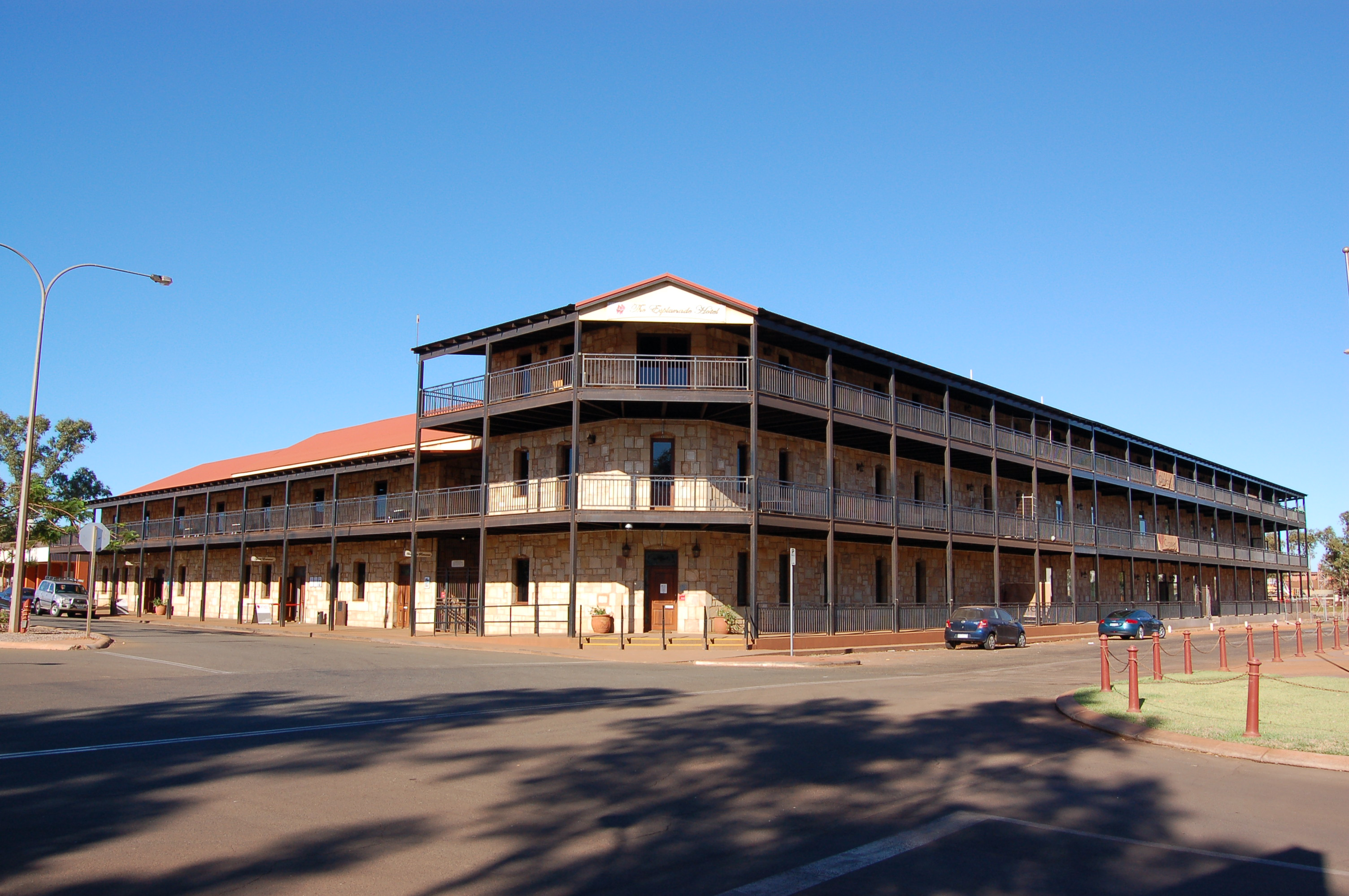 The Esplanade Hotel, Port Hedland, Western Australia, viewed from the other side of the intersection between Anderson Street (left) and The Esplanade (right).